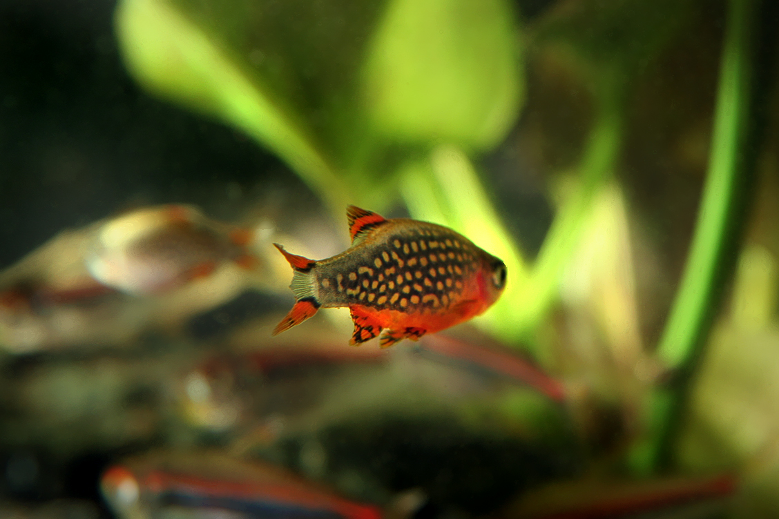 Male individuum of Danio margaritatus.